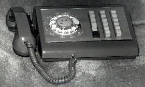 An eighteen-button Western Electric Call Director with a rotary dial. Please credit David Jordan when using this photo.